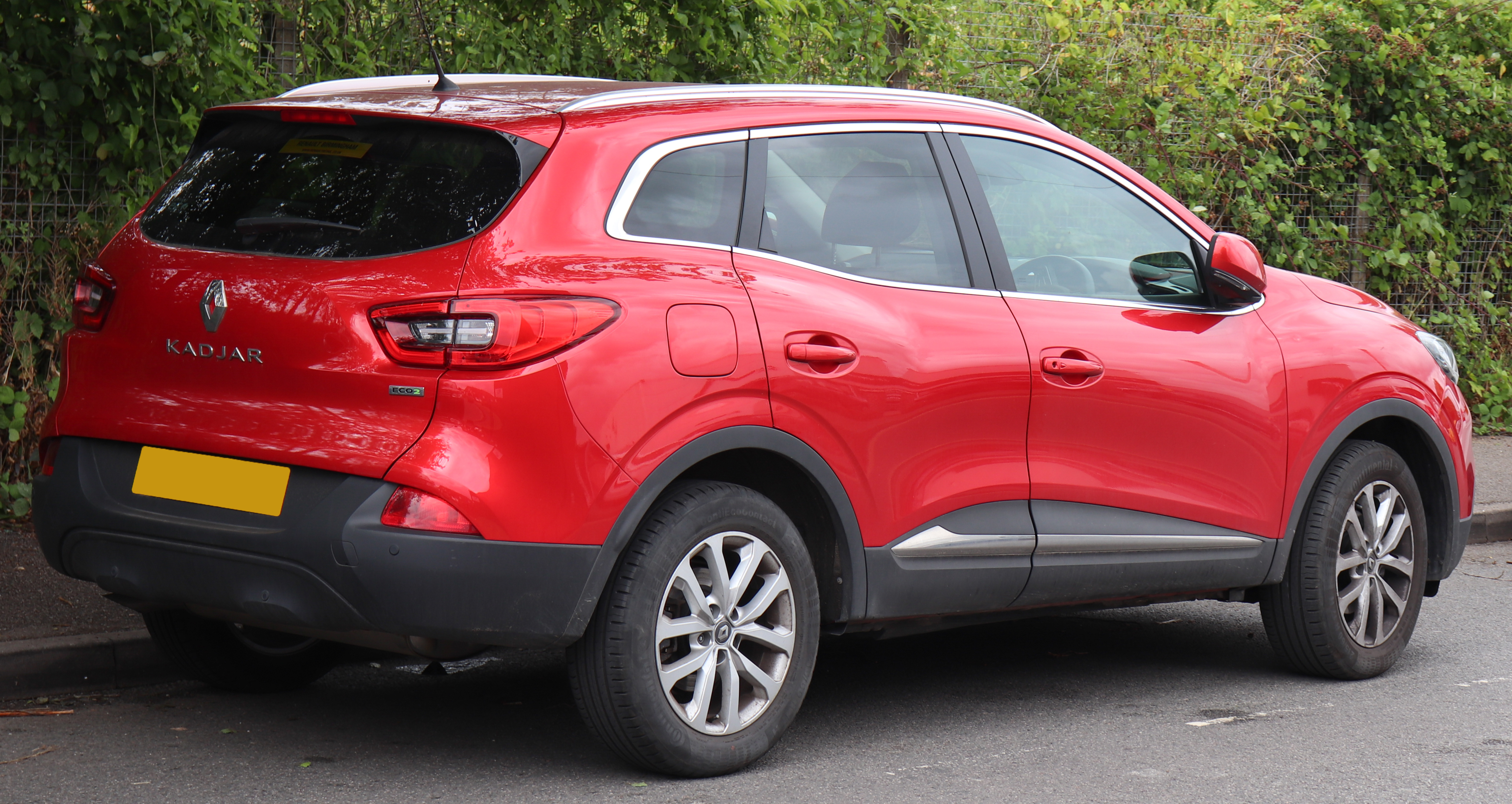 2016 Renault Kadjar Dynamique NAV DCi 1.5 Rear Taken in Stratford-upon-Avon